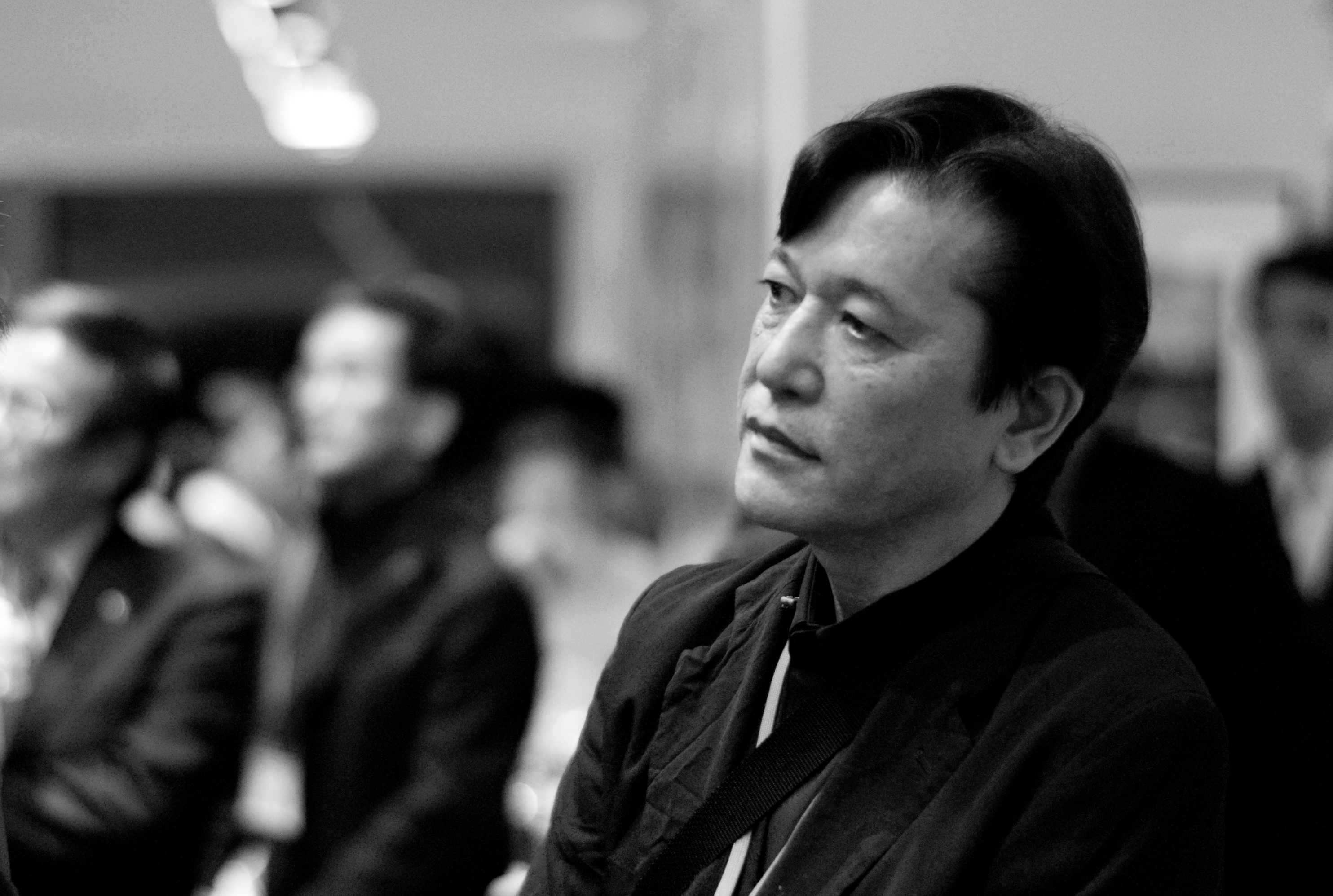 Jun（眞木準） is one of Japan's most famous copy writers.